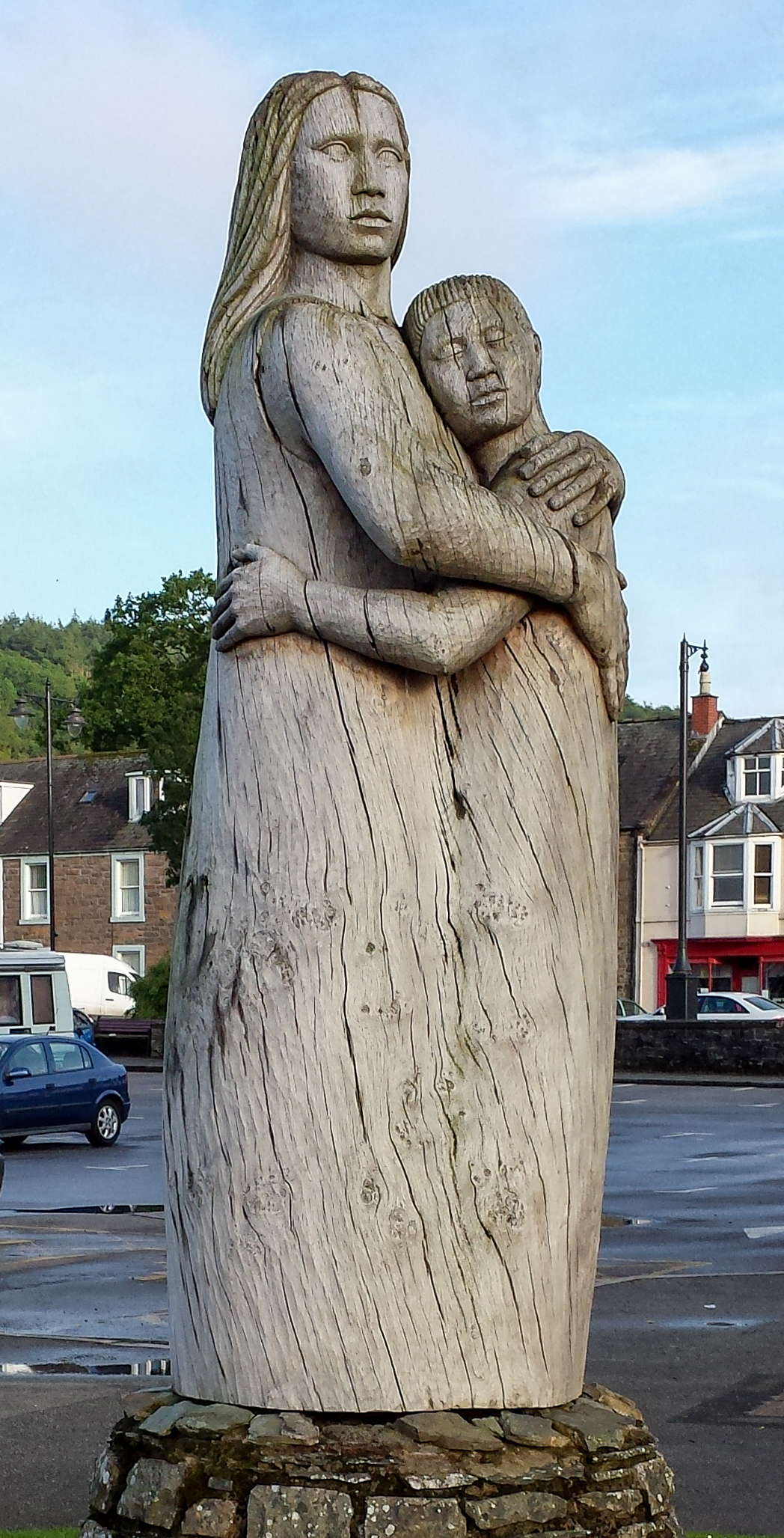 A 1994 statue by Charlie Easterfield bearing the plaque "In Memory Of Loved Ones Lost At Sea" in Kirkcudbright harbour, Scotland. Carved in green oak.[1]